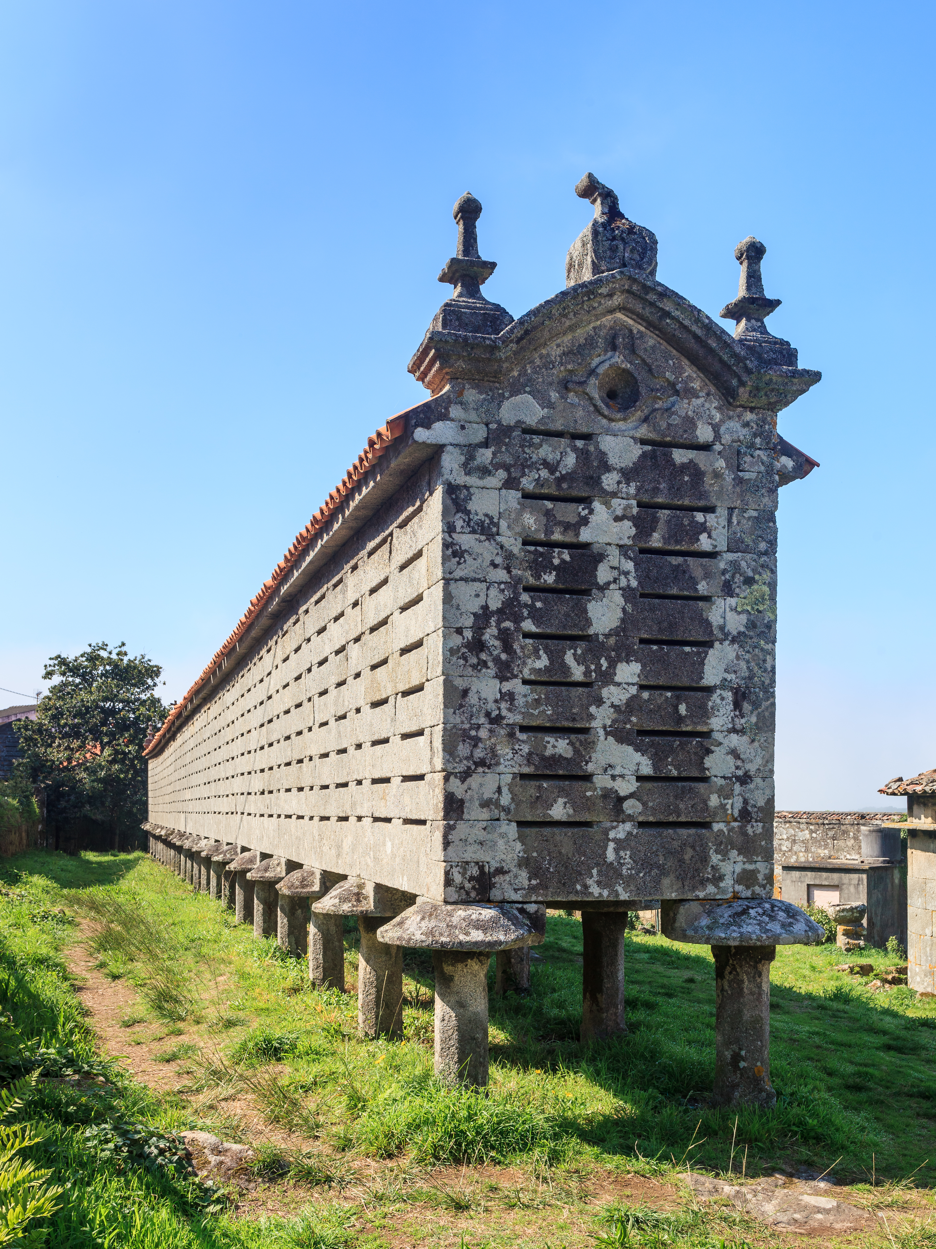 Vernacular stone granary of Lira, Carnota, Galicia (Spain).